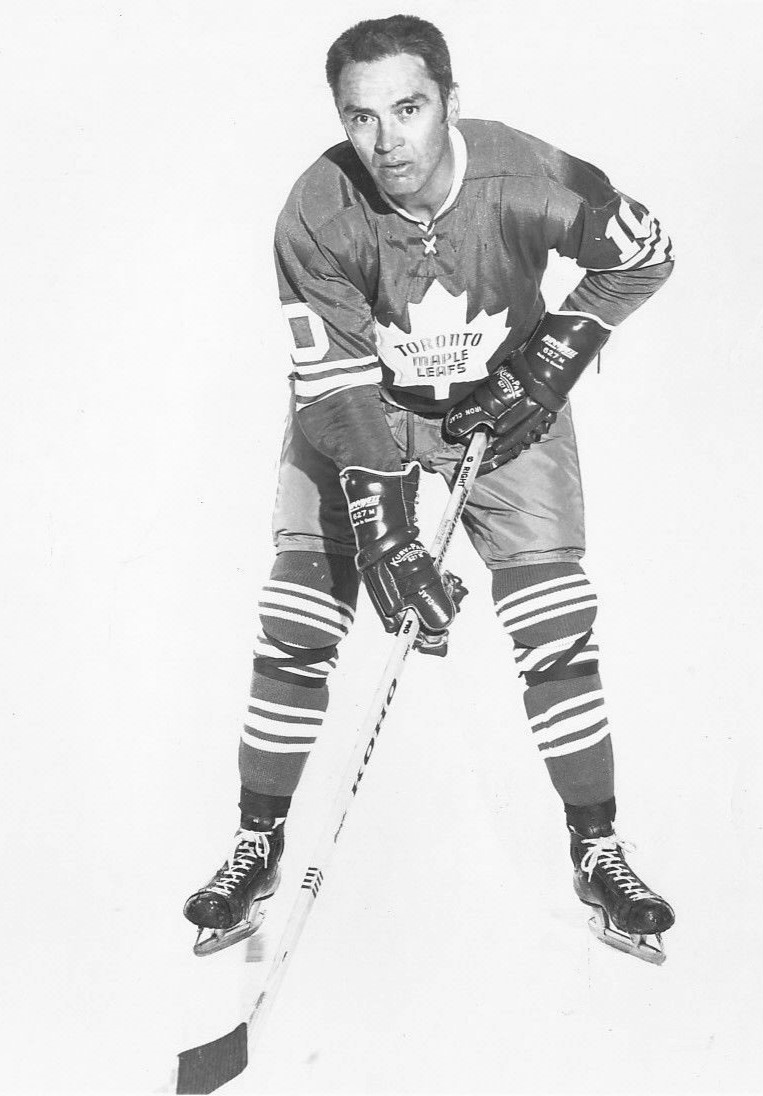 Photo of George Armstrong as a member of the Toronto Maple Leafs.